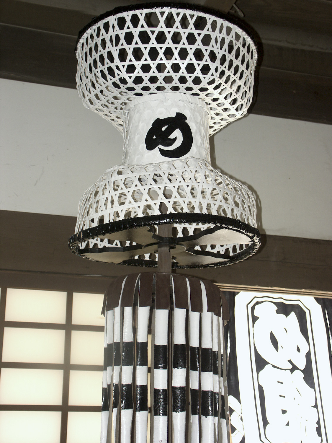 Toei Uzumasa Studios, Kyoto, Japan I contribute my rights in the file to the public domain. People and organizations retain rights to images in the file. Matoi of Megumi firefighters